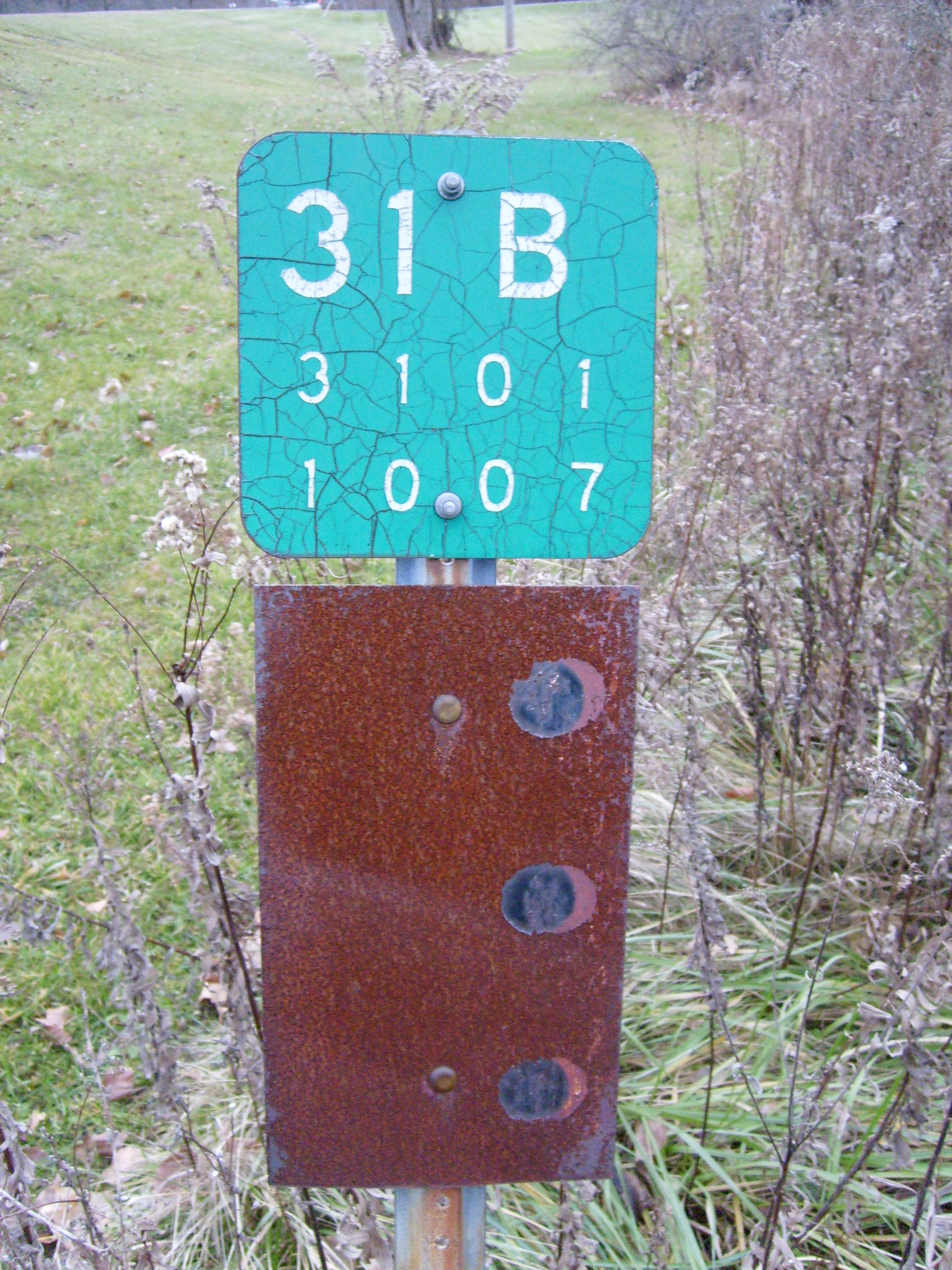 A reference marker for New York State Route 31B left over from the 1980s.